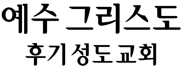 Logo of The Church of Jesus Christ of Latter-day Saints in Korean